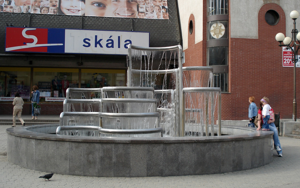 Fountain in Miskolc, Hungary. Designer: Klára Balatoni